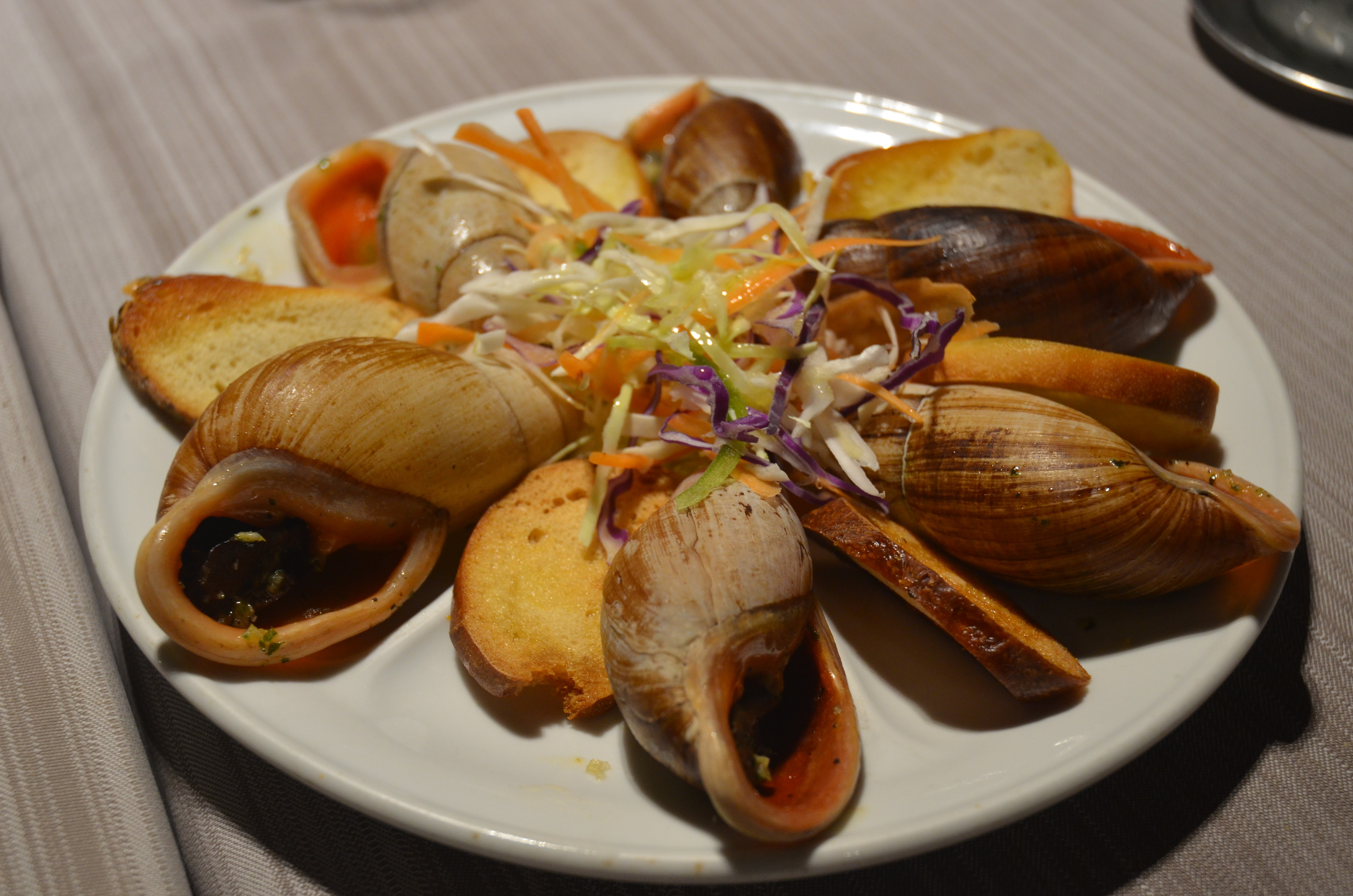 Île des Pins snails (Placostylus fibratus) cooked with garlic butter, served at restaurant La Pirogue at Le Meridien Île des Pins.